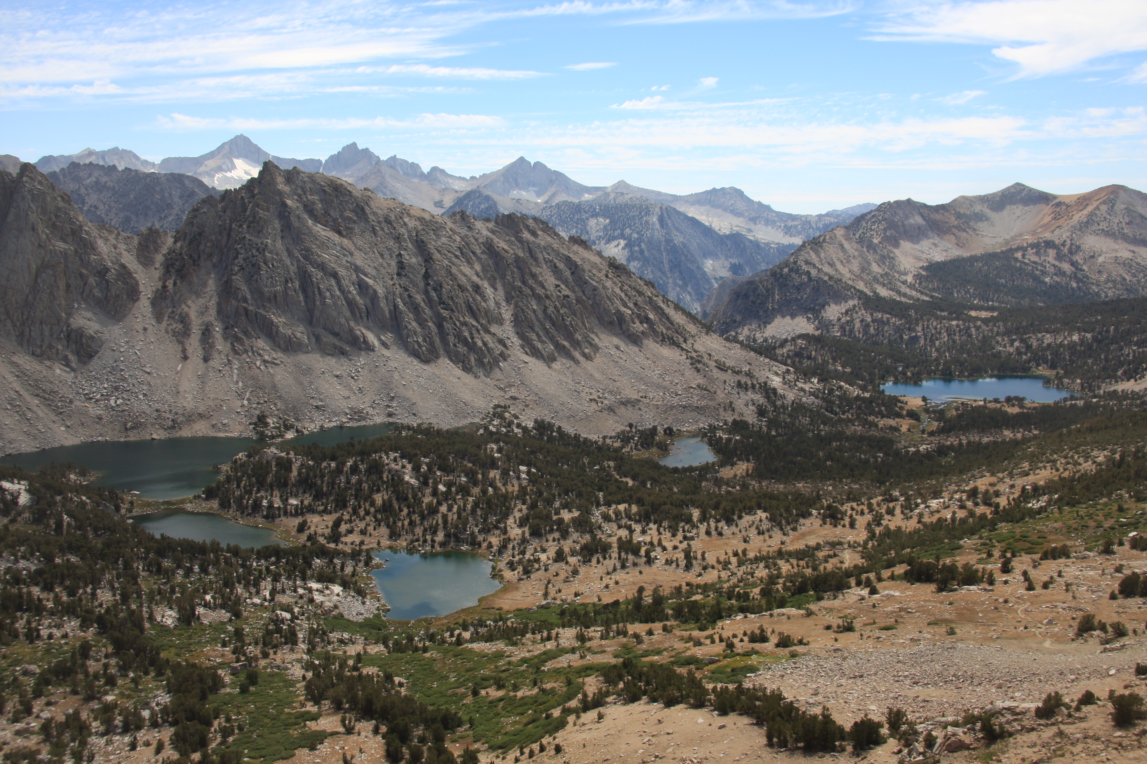 Kearsarge and Bullfrog Lakes looking West from Kearsarge Pass (3,598 m (11,804 ft)). Kings Canyon National Park, Sierra Nevada USA.